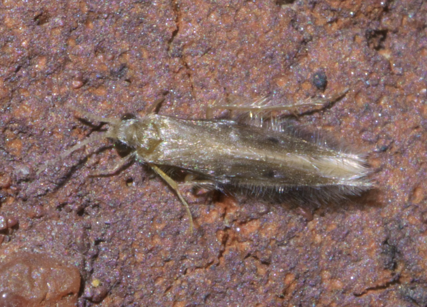 Oxyethira, Family: Microcaddisflies, Maybe Oxyethira pallida, Size: 3.4 mm